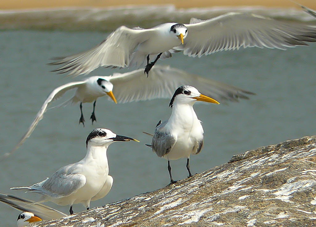 Several Lesser Crested Terns Thalasseus bengalensis and a single Sandwich Term Thalasseus sandvicensis. All in non-breeding plumage. It is the bird on the left that is the Sandwich Tern as distinguished by its yellow-tipped black bill (in this individual, deformed).